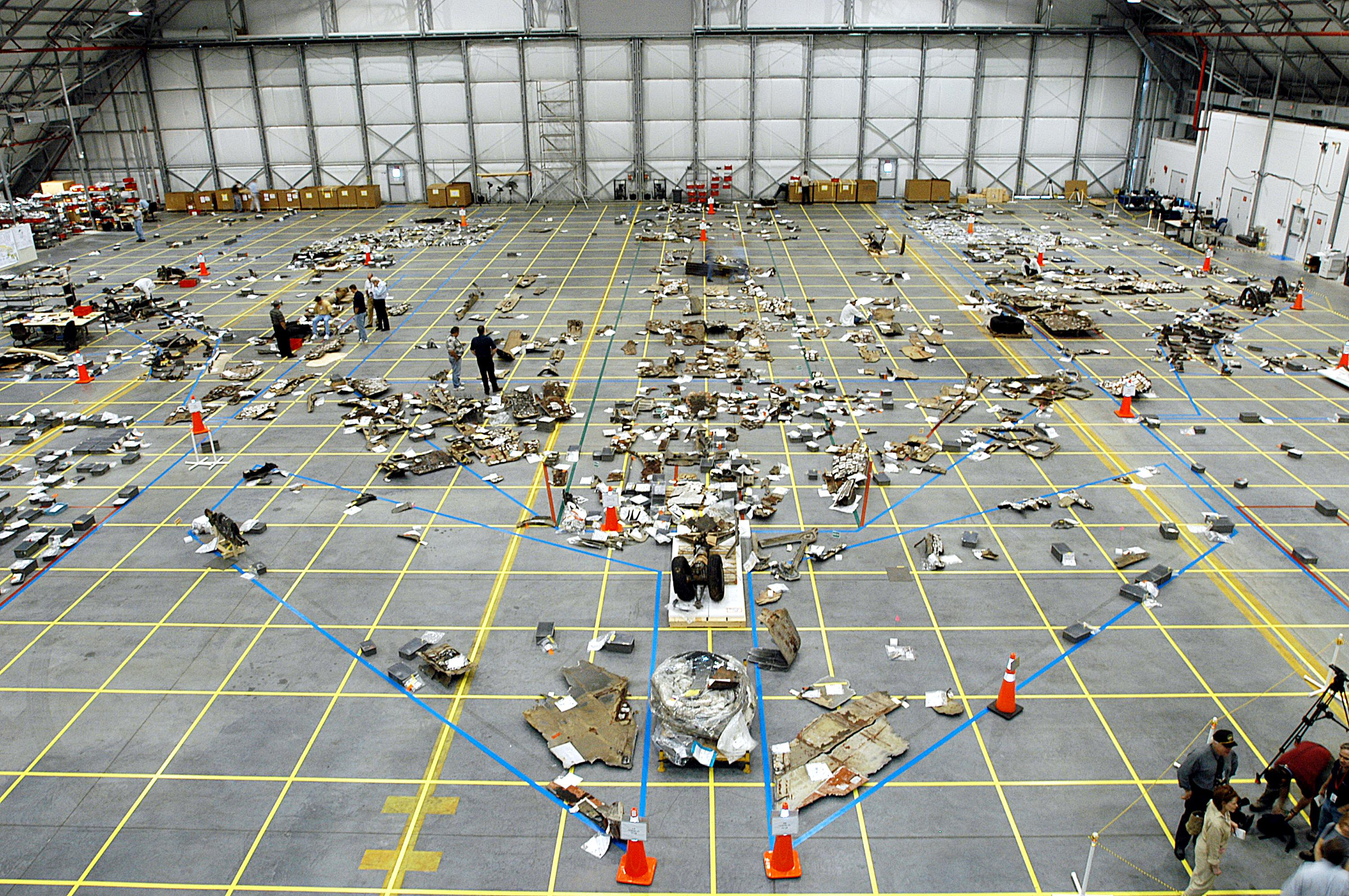 A grid on the floor of the RLV Hangar at KSC is filling up with pieces of Columbia debris that have been collected by workers in the field. The blue lines reflect the outline of the orbiter.